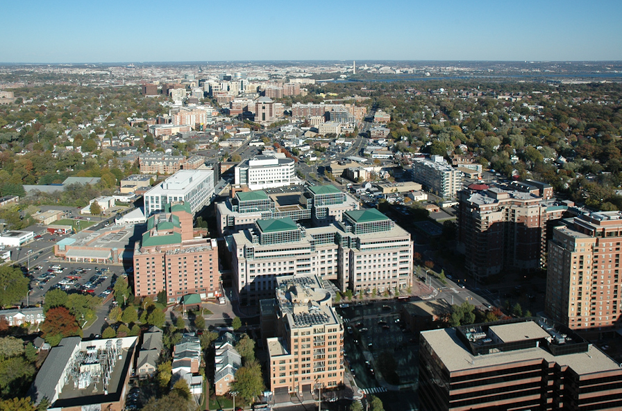 View of the central urbanized axis, developed along the Fairfax Drive and Clarendon Boulevard in Arlington County, Virginia, USA. The axis is long approximately 3 miles (4.5 km) and is figuratively perpendicular to the Potomac River which separates the county from the city of Washington. The Washington Monument obelisk is clearly visible in the background.